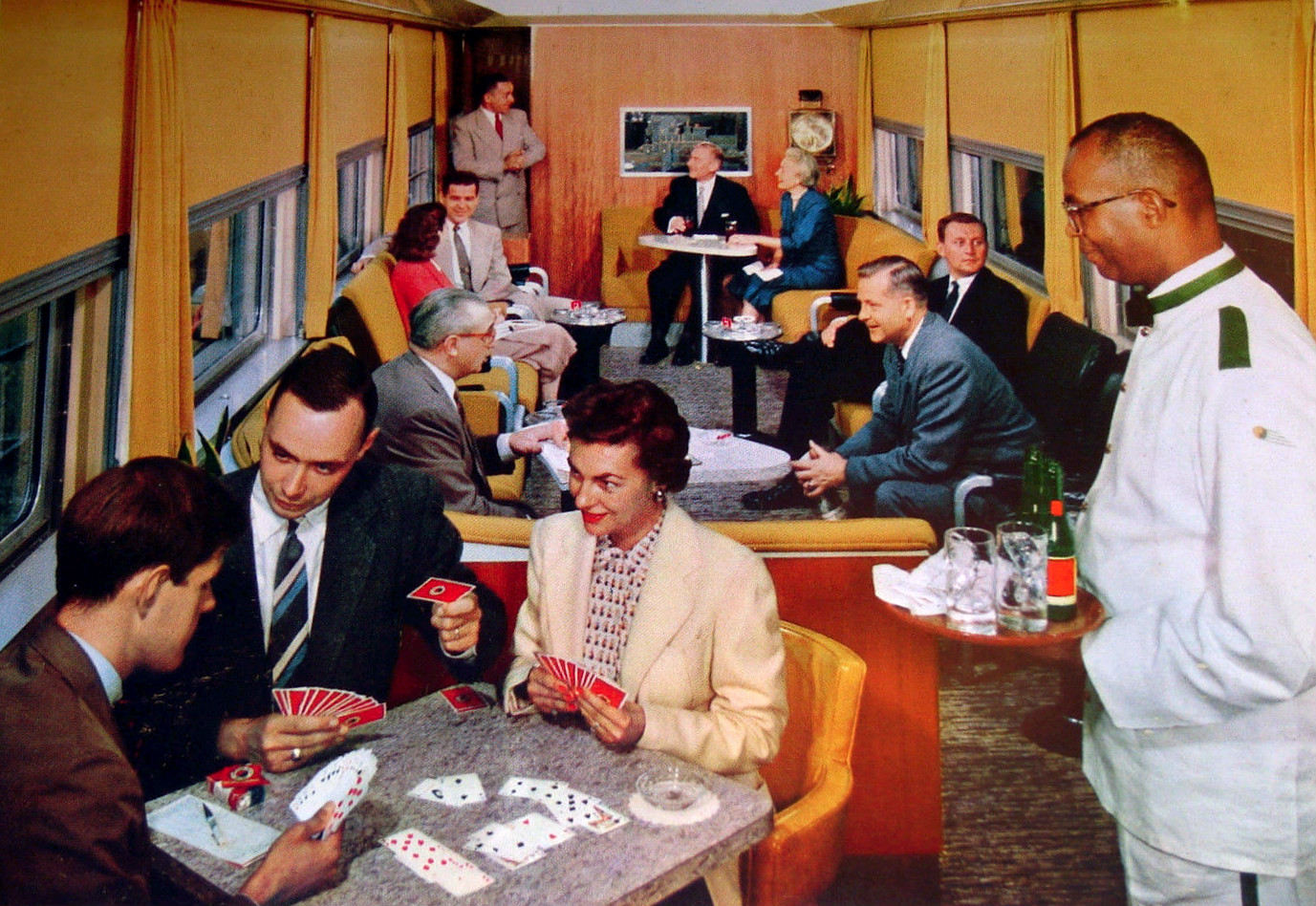 Postcard photo of the Holiday Lounge car on the Northern Pacific Railway's "Mainstreeter" train, which was a companion train to the North Coast Limited and traveled the same route. The "Holiday Lounges" were a set of five parlor-buffet lounge cars built by Pullman-Standard in 1956 (numbered 487-491).